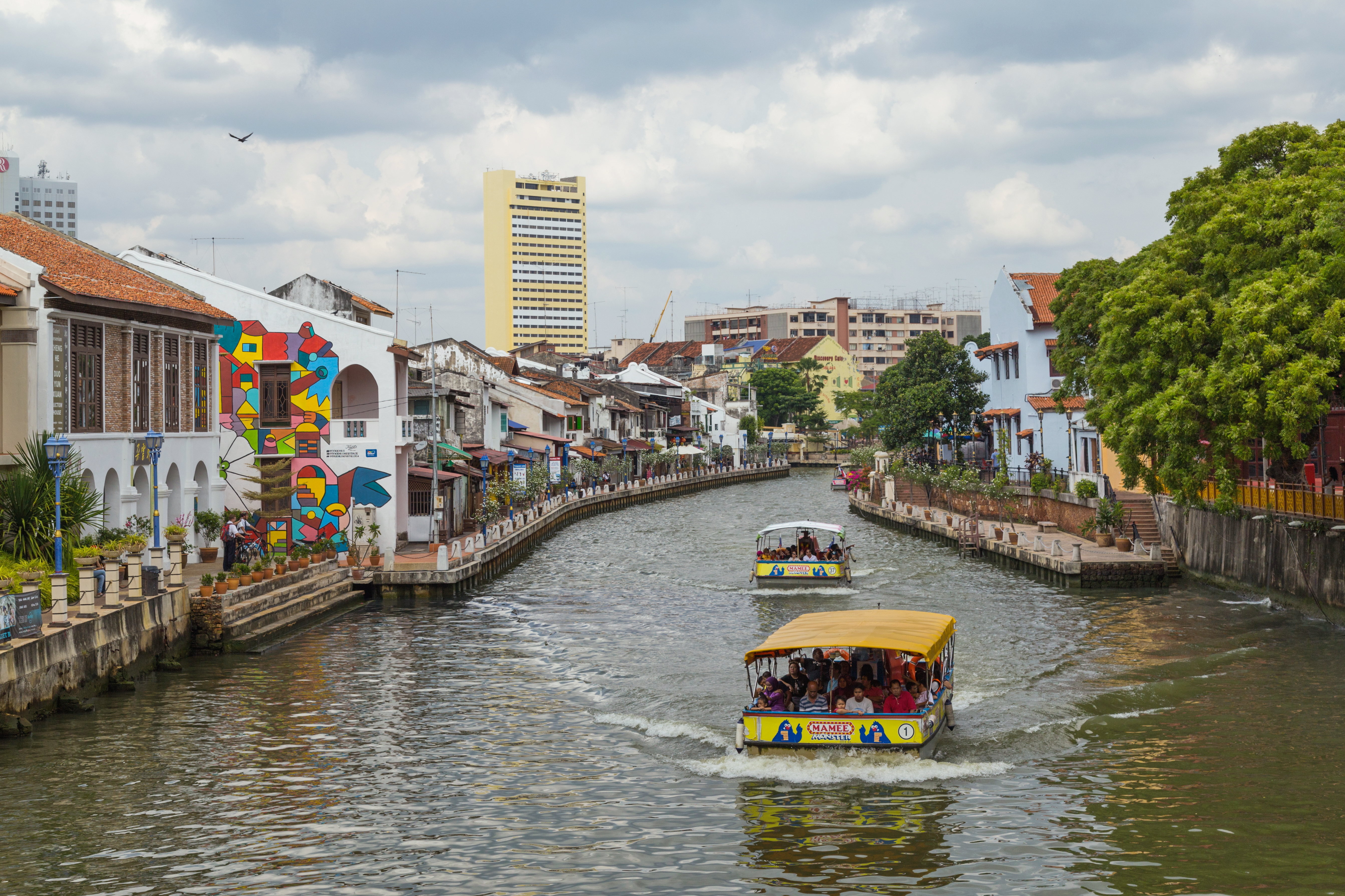 View of the Malacca River from the bridge on Jambatan Tan Kim Seng Street. Malacca City, Malacca, Malaysia.